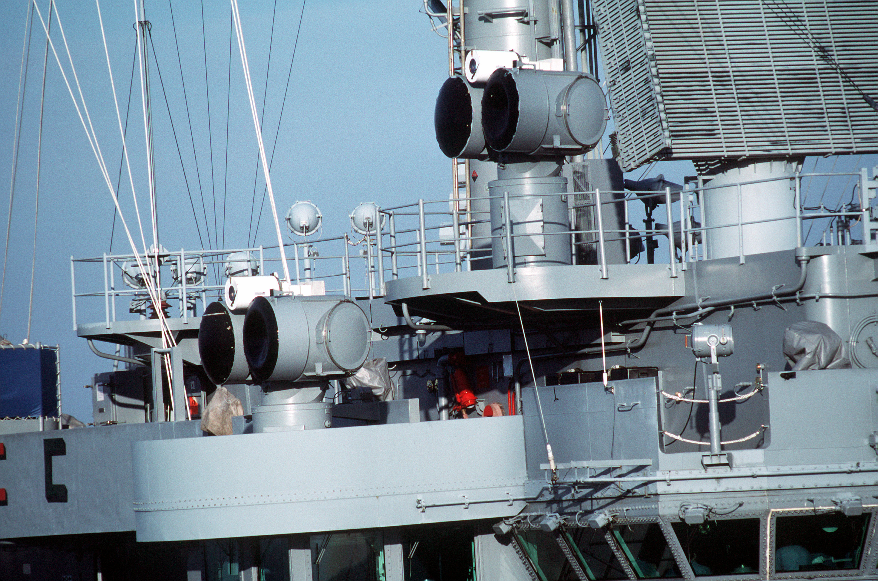 A view of two SPS-65 low altitude radar antennas for the MARK 91 Fire Control System on the nuclear-powered aircraft carrier USS THEODORE ROOSEVELT (CVN-71). Location: NAVAL AIR STATION, NORFOLK, VIRGINIA (VA) UNITED STATES OF AMERICA (USA)